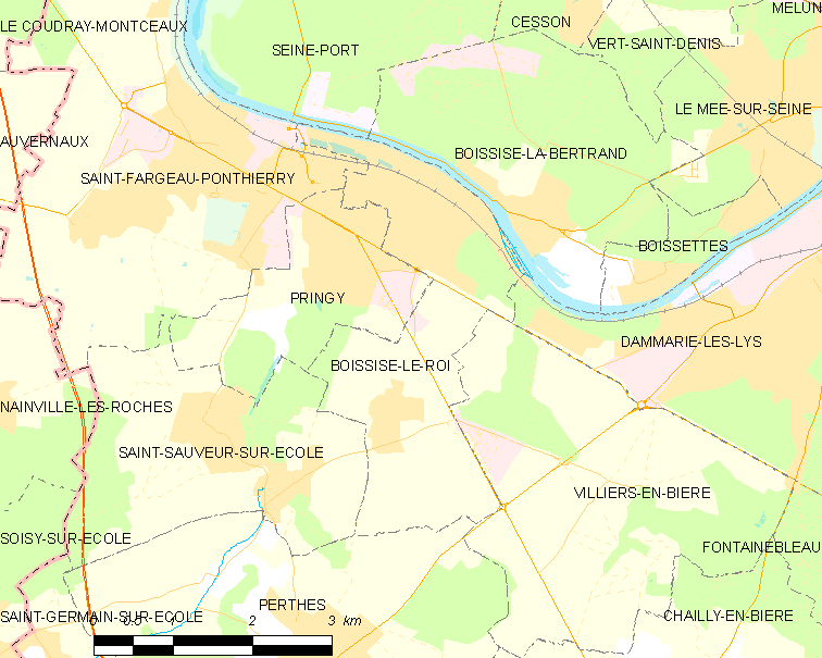 Map of French municipality Boissise-le-Roi